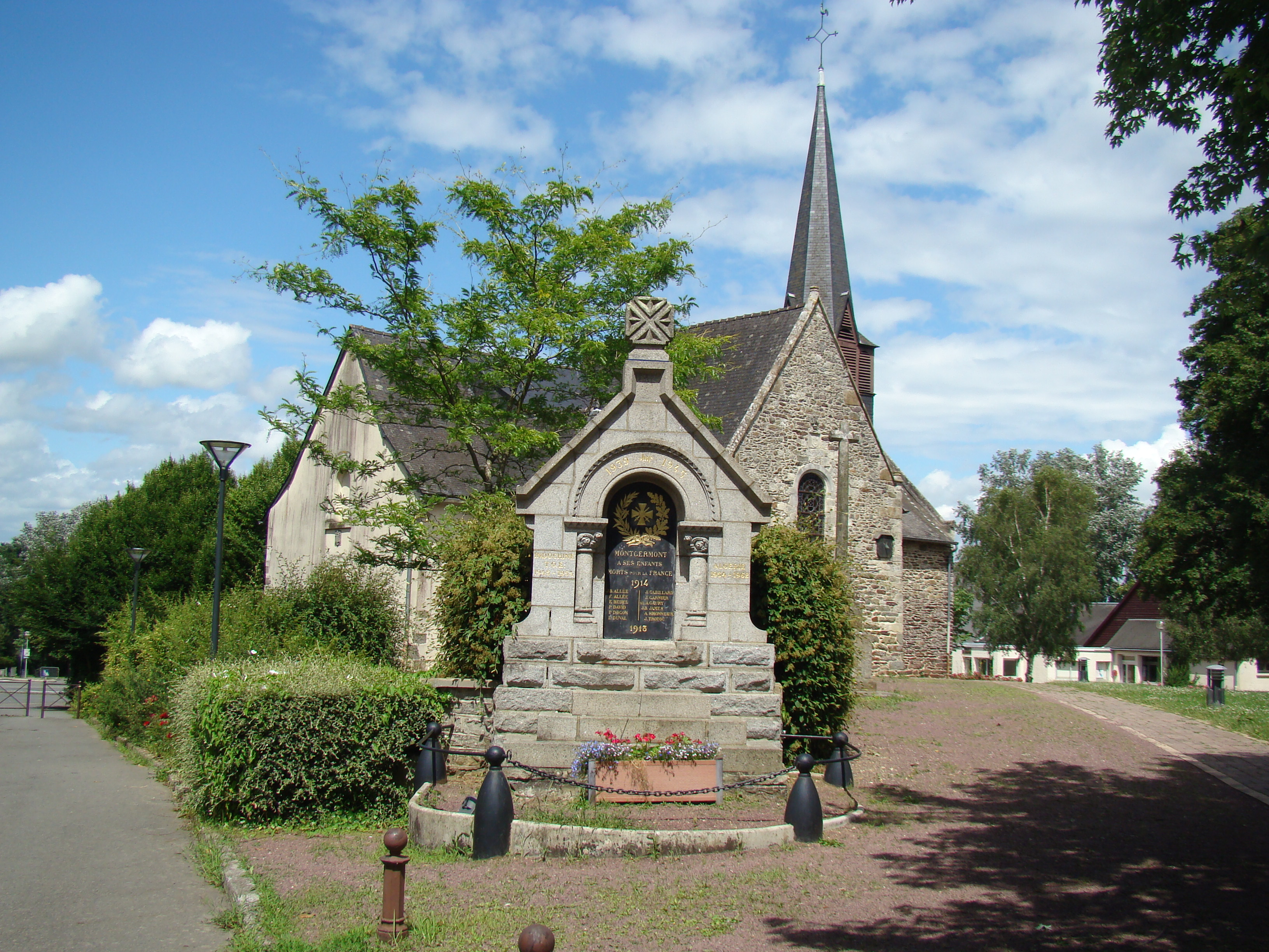 War memorial in Montgermont .